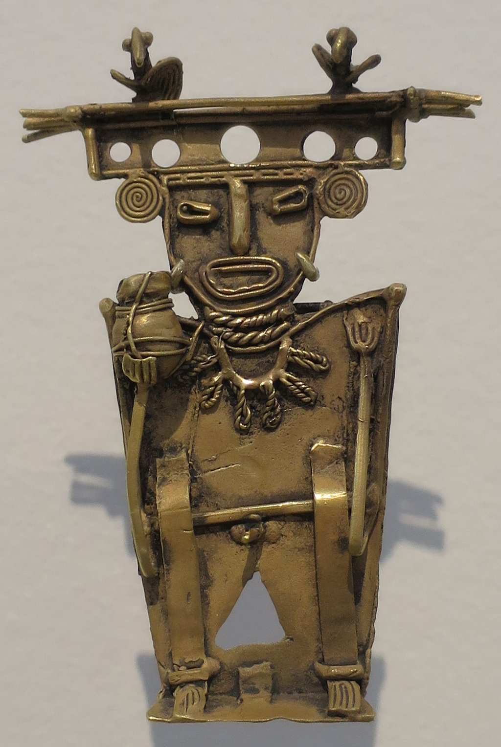 Cast gold male votive figure, Muisca culture, Colombia, c. 11th-early 16th century, Honolulu Museum of Art, accession 5171.1